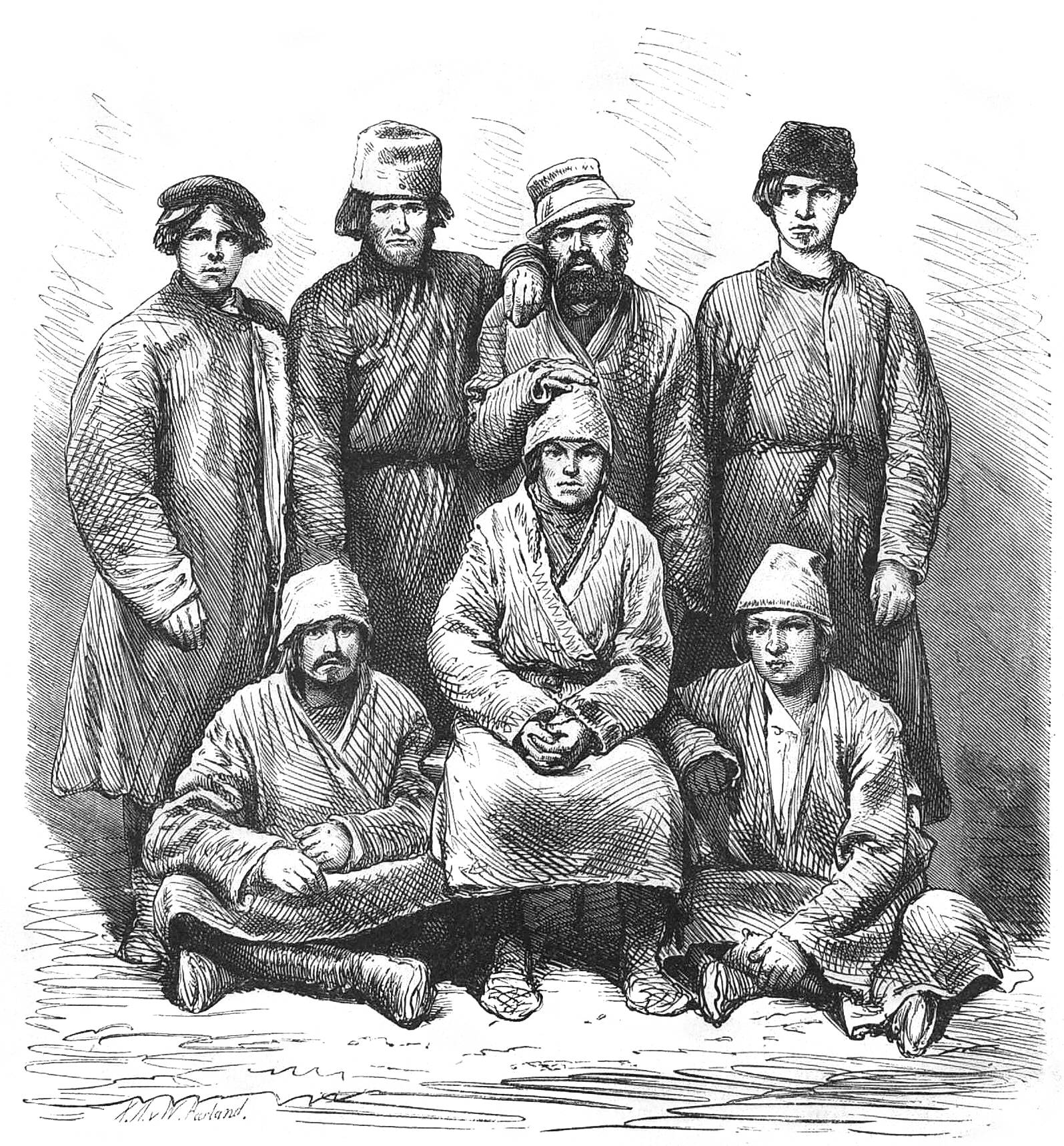 no caption